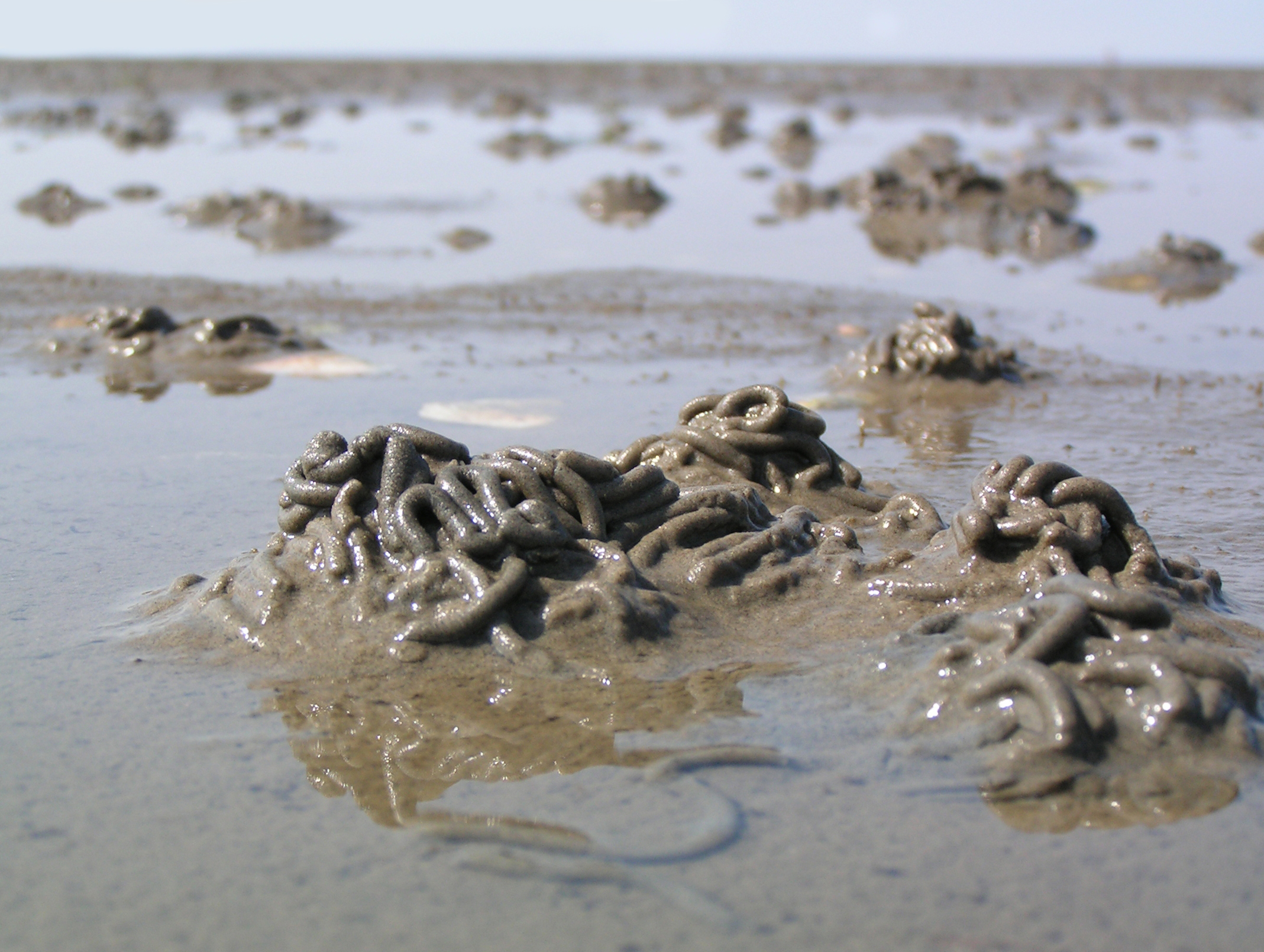 A Lugworm cast in the Nationalpark Schleswig-Holsteinisches Wattenmeer, Germany, July 2006